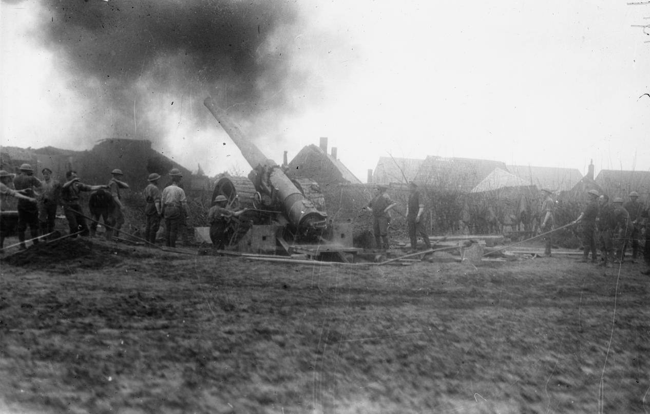 A 6 inch Naval gun on the outskirts of Beaumetz-lès-Loges, firing to cut the wire in front of the Hindenburg Line. Location : France: Picardie, Somme Beaumetz-lès-Loges. Comment : This was part of the preliminary bombardment for the Second Battle of Bullecourt. See also : Image:6inchMkVIIGunBeaumetz21April1917-2.jpeg NOTE : This version of the photograph has brightness and contrast artificially increased to highlight details.